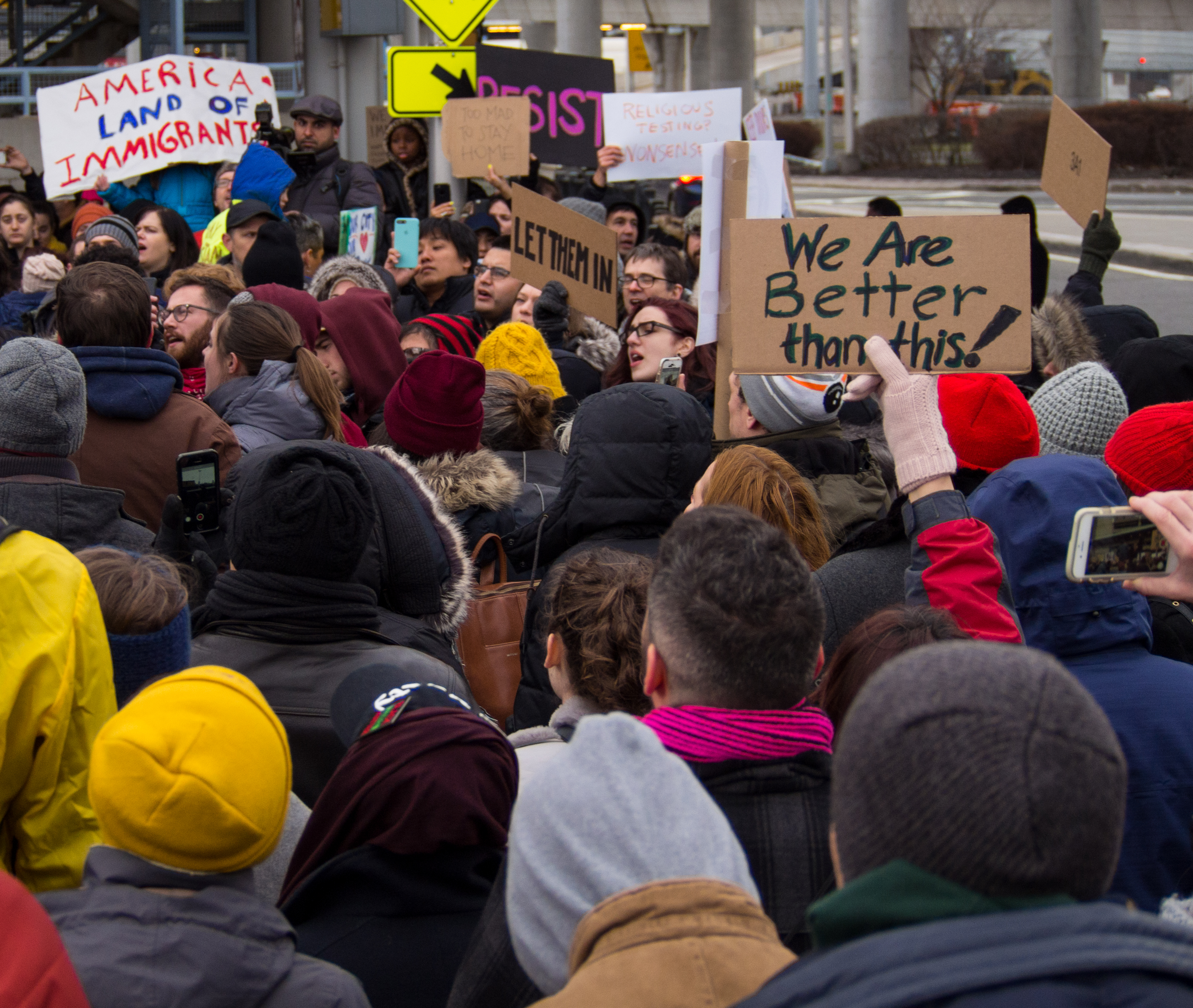 Protest at John F. Kennedy International Airport (JFK), Terminal 4, in New York City, against Donald Trump's executive order signed in January 2017 banning citizens of seven countries from traveling to the United States (the executive order is also known as "Protecting the Nation from Foreign Terrorist Entry into the United States").